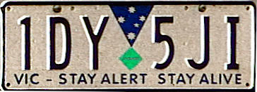 2015 Toyota Camry (AVV50R) Hybrid H sedan. Photographed in Ivanhoe, Victoria, Australia. Vehicle registration enquiry results Jurisdiction Victoria Registration 1DY5JI Chassis code 6T1BD3FK70X142151 Engine code 2ARU217723 Compliance date 2015-02 Year of manufacture 2015